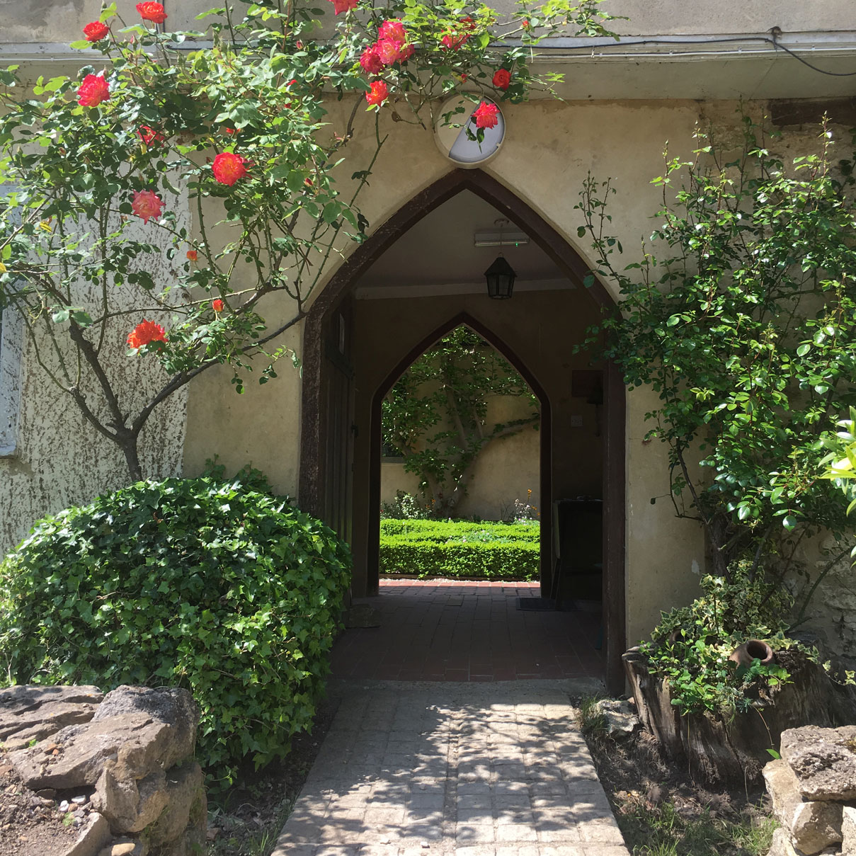 The Abbey, Sutton Courtenay, Oxfordshire, England